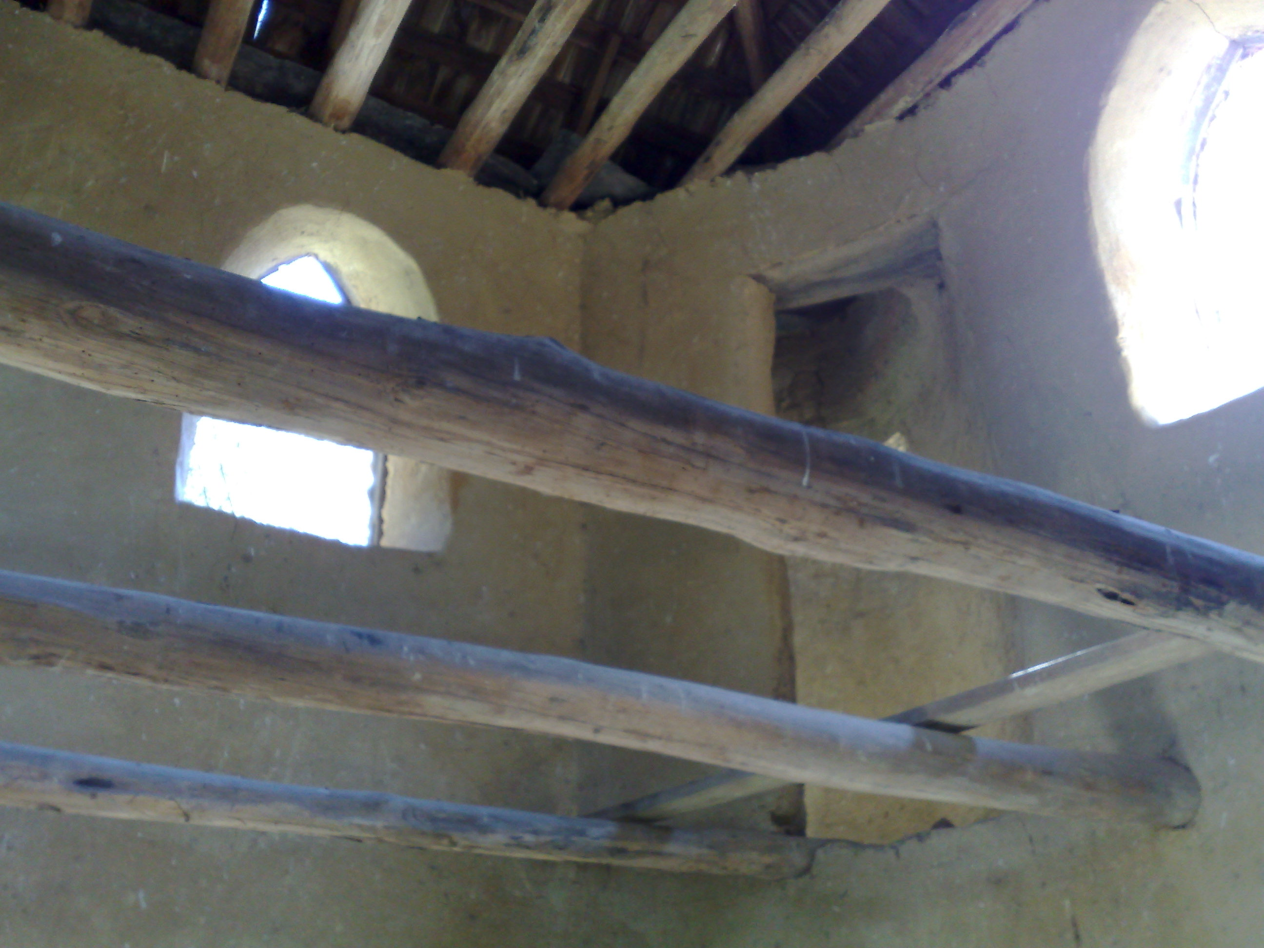 Bears Castle - inside showing the second floor floor joists - without flooring